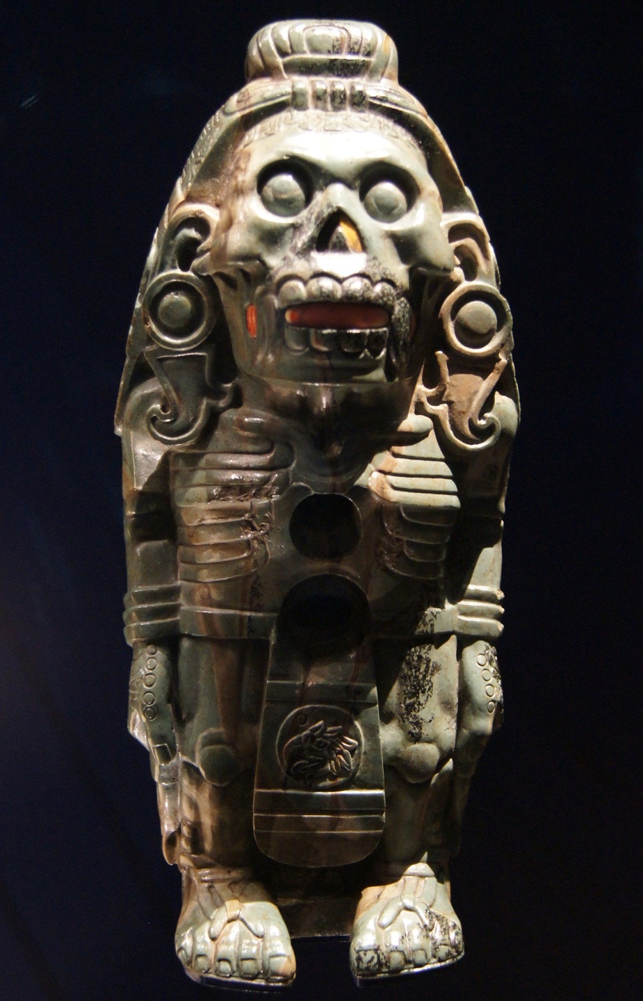 Xolotl, an Aztec god, Mexico before 1521, Landesmuseum Württemberg (Stuttgart) Kunstkammer